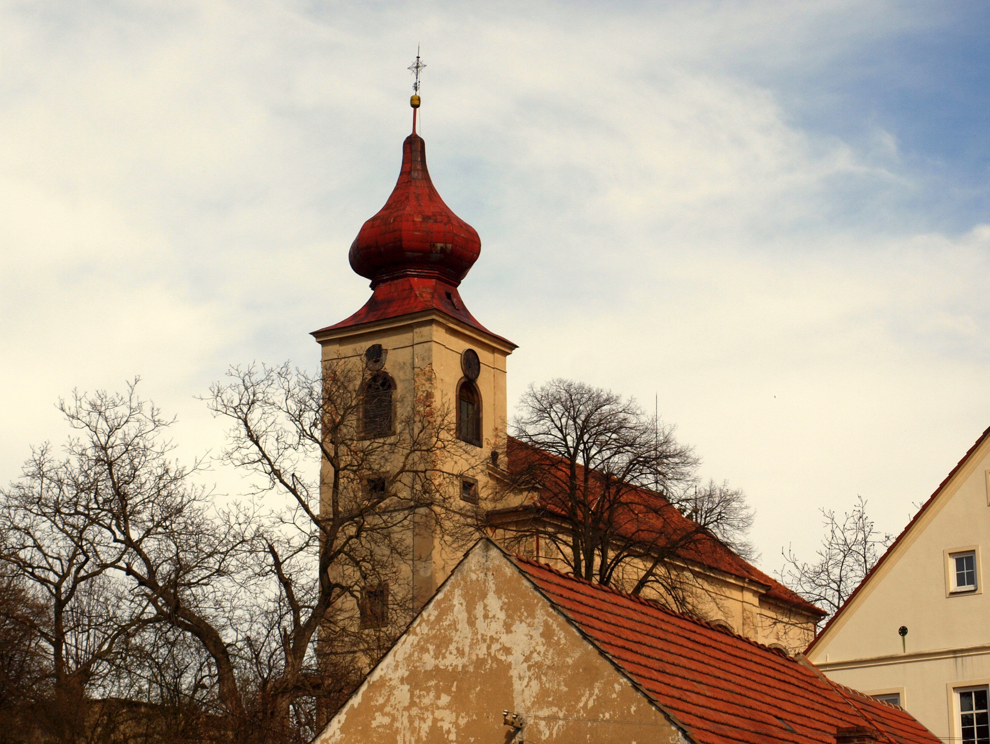 Soběnice - Church